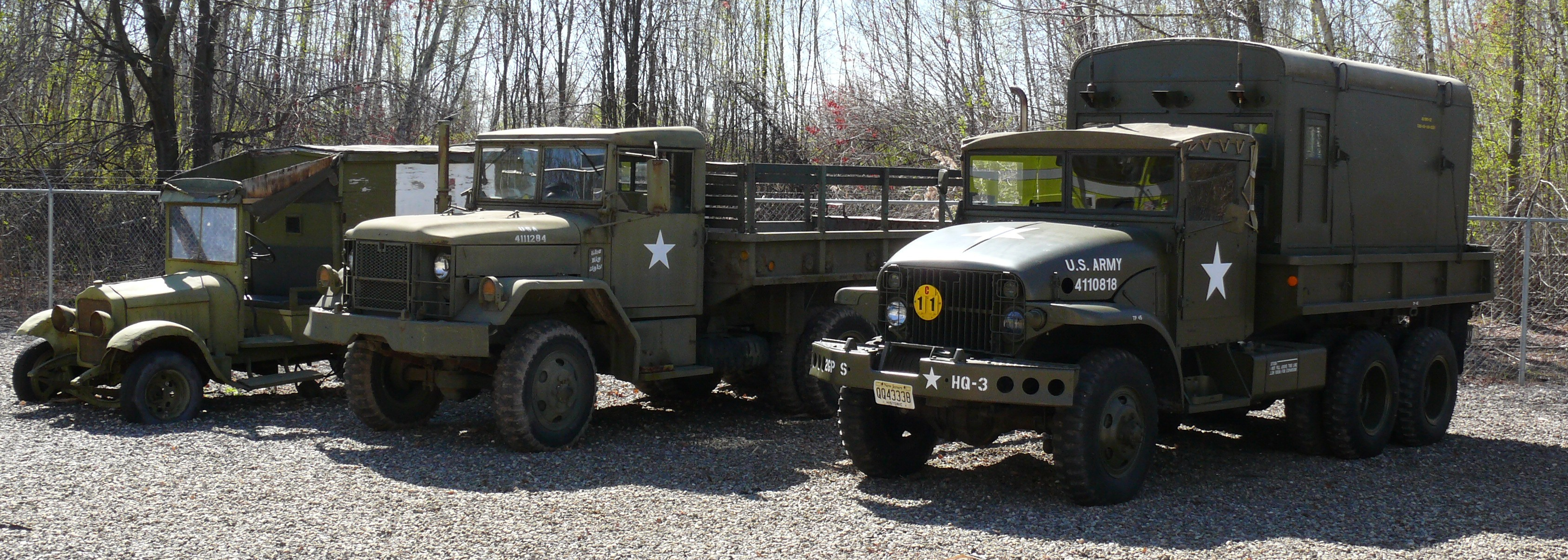 US Army vehicles in the Aviation Hall of Fame and Museum of New Jersey.